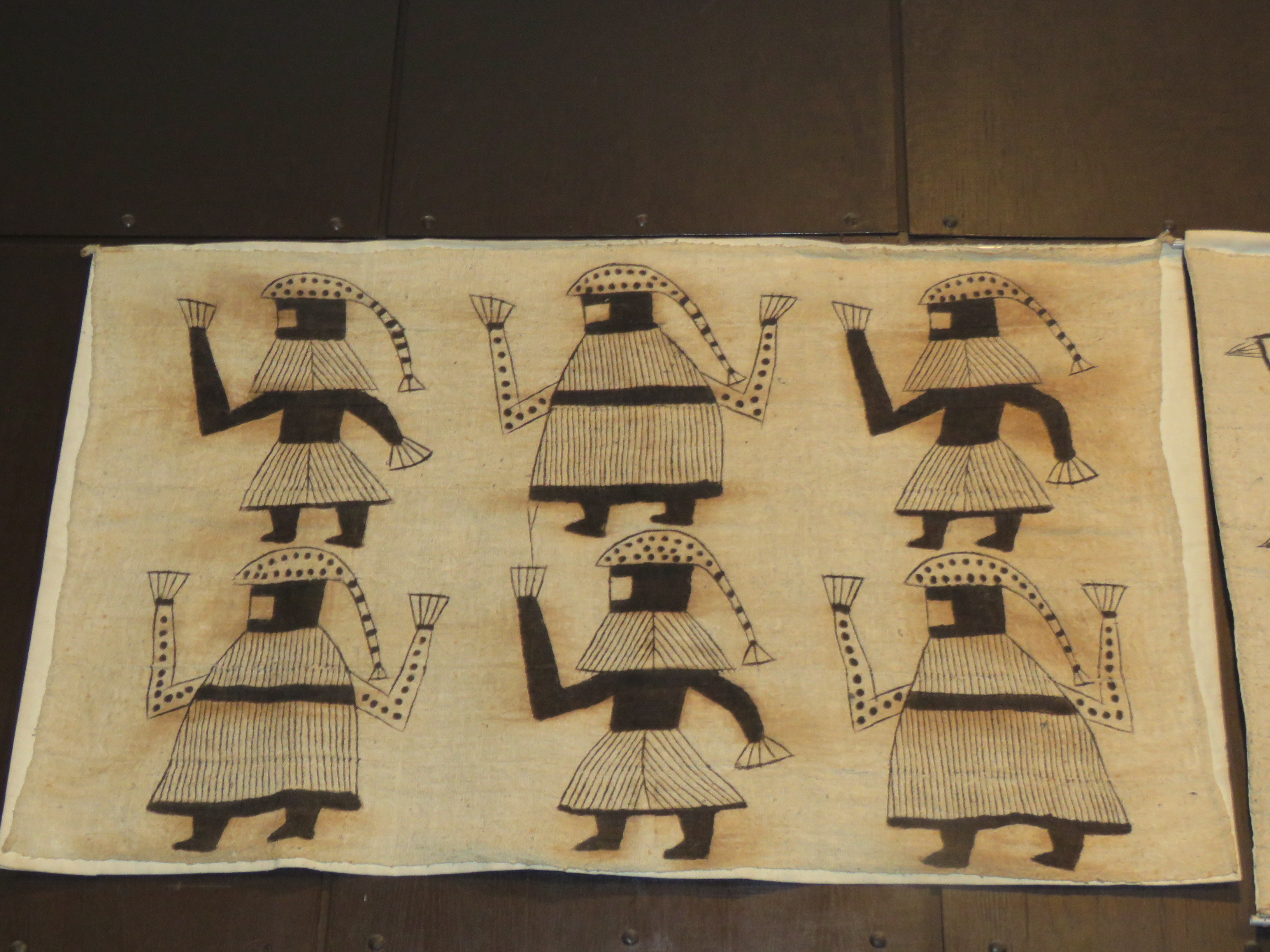 Korhogo cloth, Senufo people, Ivory Coast